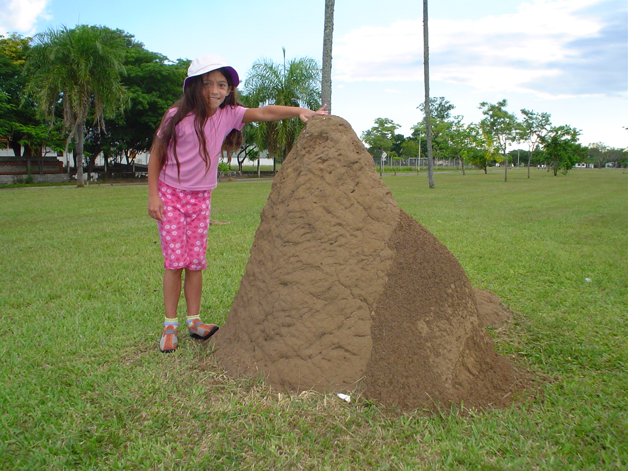 Giant clay ant hill in the North East of Argentina. Author: Carlos Ponte